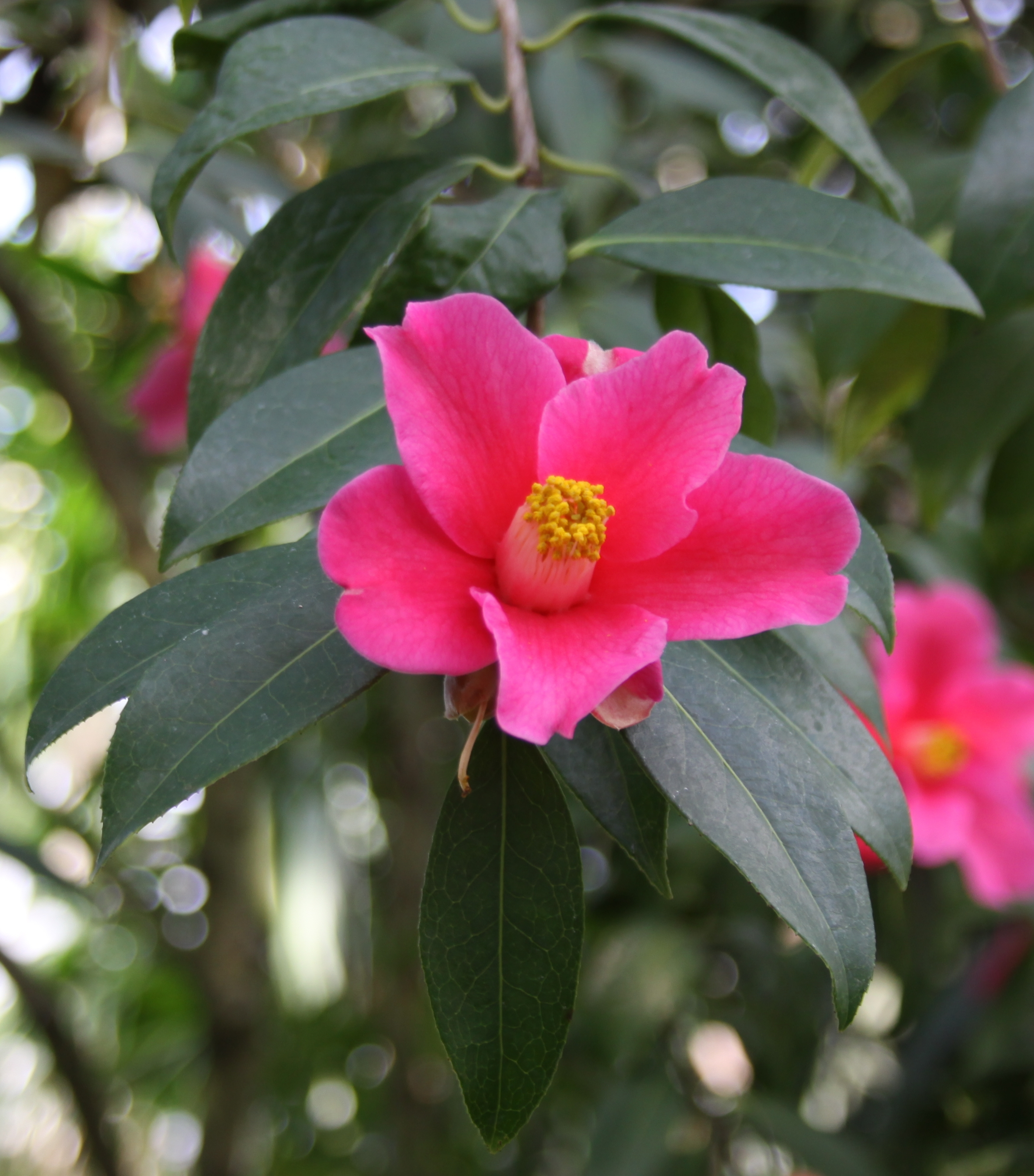 Royal Botanic Garden Kew Temperate House